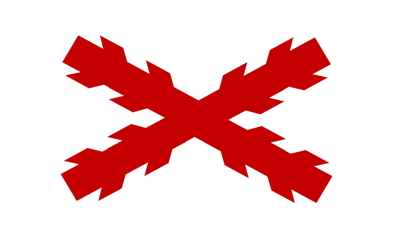 Traditionalist flag of the Requetés